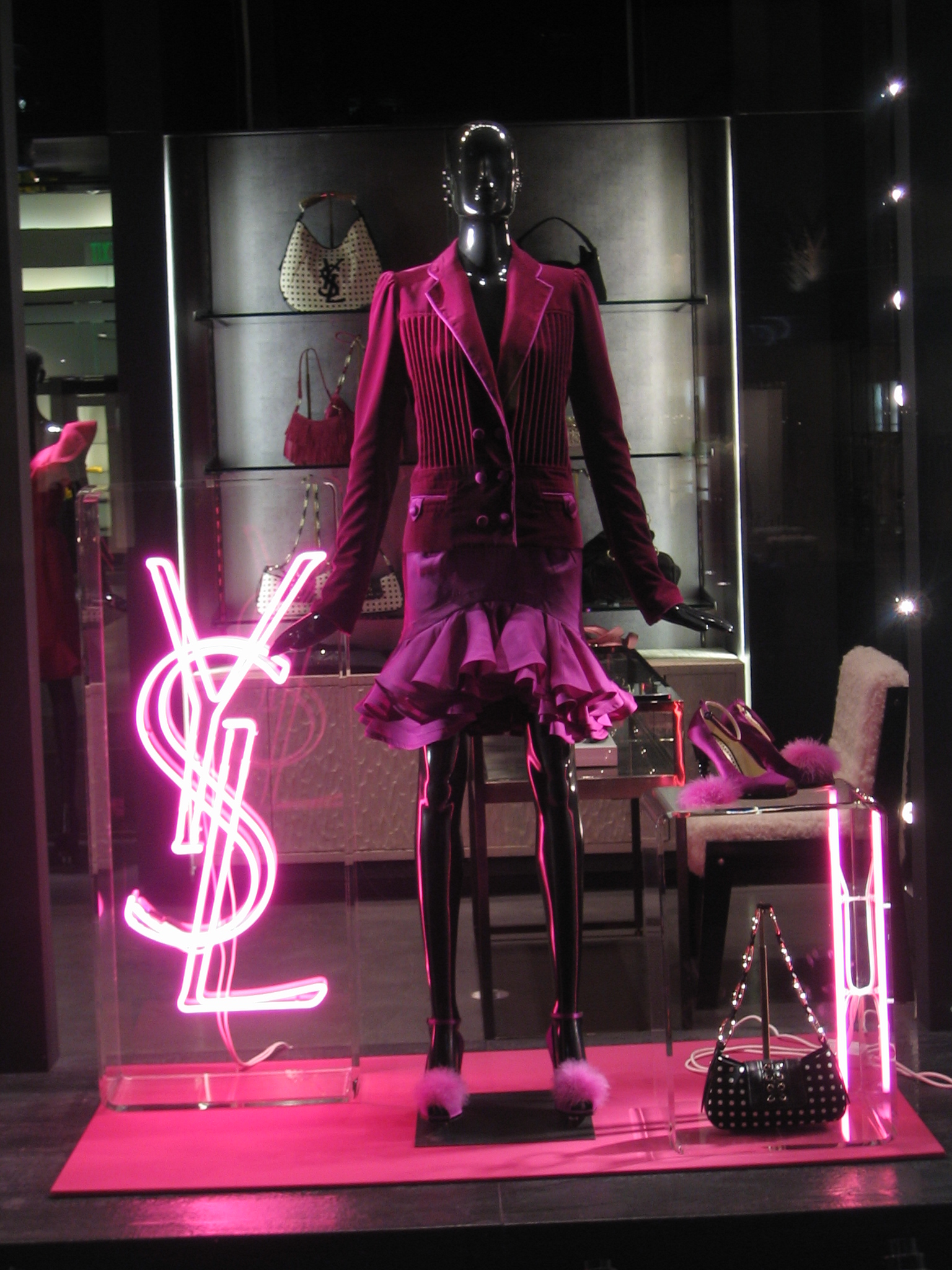 The Yves Saint Laurent boutique on Rodeo Drive in Beverly Hills, California.